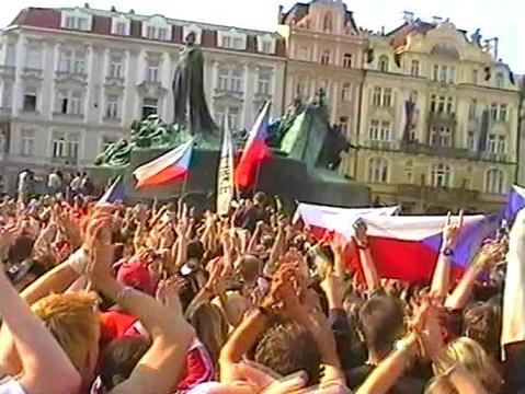 Arrival of the ice hockey world champions - Prague, Old Town Square